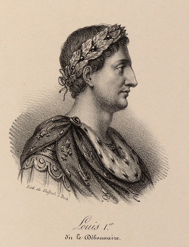 Louis the Pious (778-840), King of the Franks